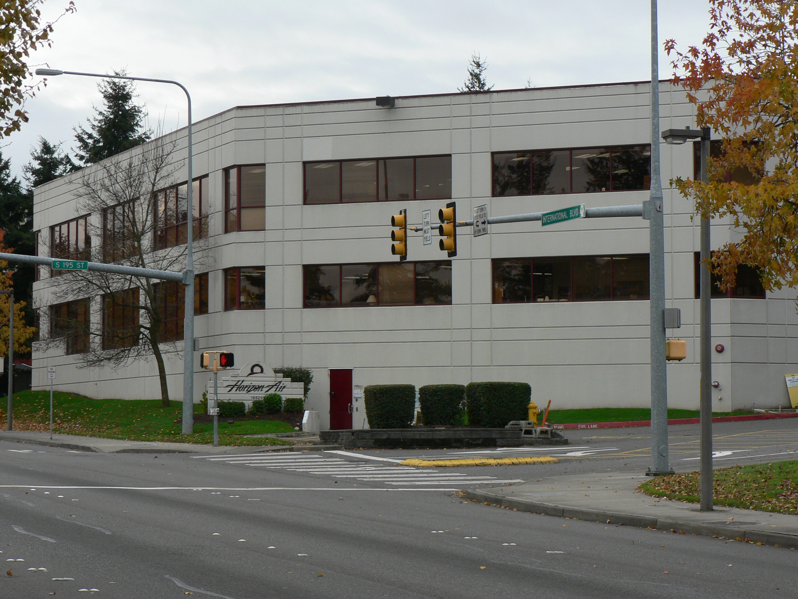 Horizon Air Industries headquarters , 19521 International Boulevard, Seatac, WA 98188-5499